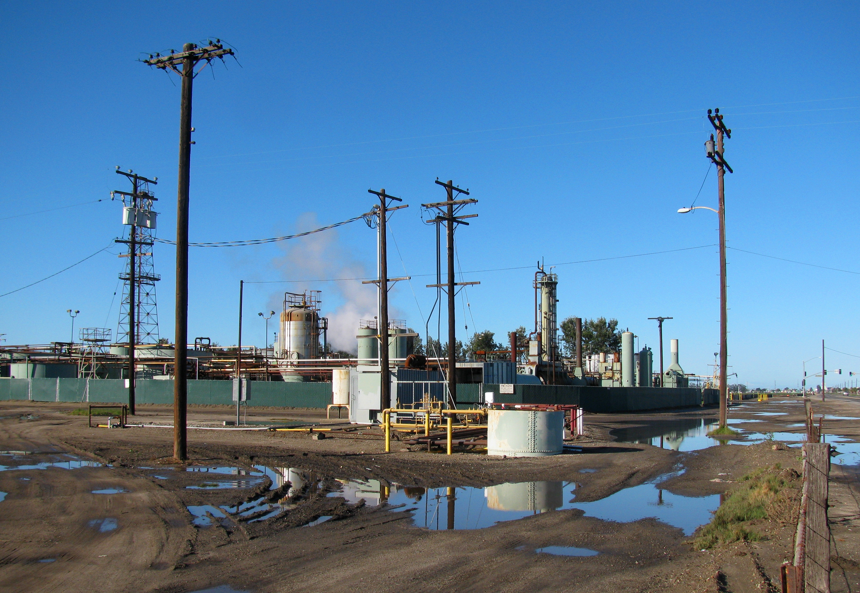 2,800 bpd Oxnard Refinery, on Oxnard field; photo by self, GFDL/equiv.